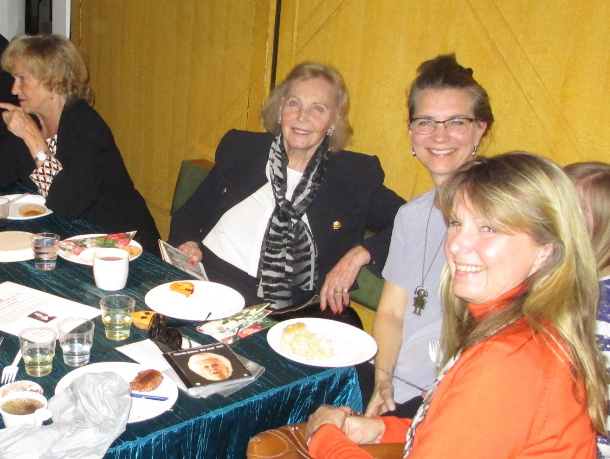 Signe von der Esch, Princess Marianne Bernadotte, Angela Kovács & Kicki Selsmark after a theater event in the Bernadotte Friendship ClubPlace: Pygméteatern, Vegatatan 17, Stockholm, Sweden